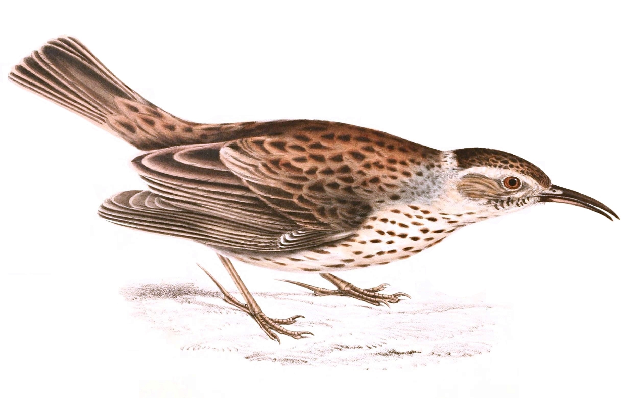 « Certhilauda subcoronata » = Certhilauda subcoronata (Karoo long-billed lark) Smith collected these specimens "on the arid Karroo plains of middle and eastern districts of the Cape colony", which Sclater, 1930, restricted to Deelfontein, Northern Cape.